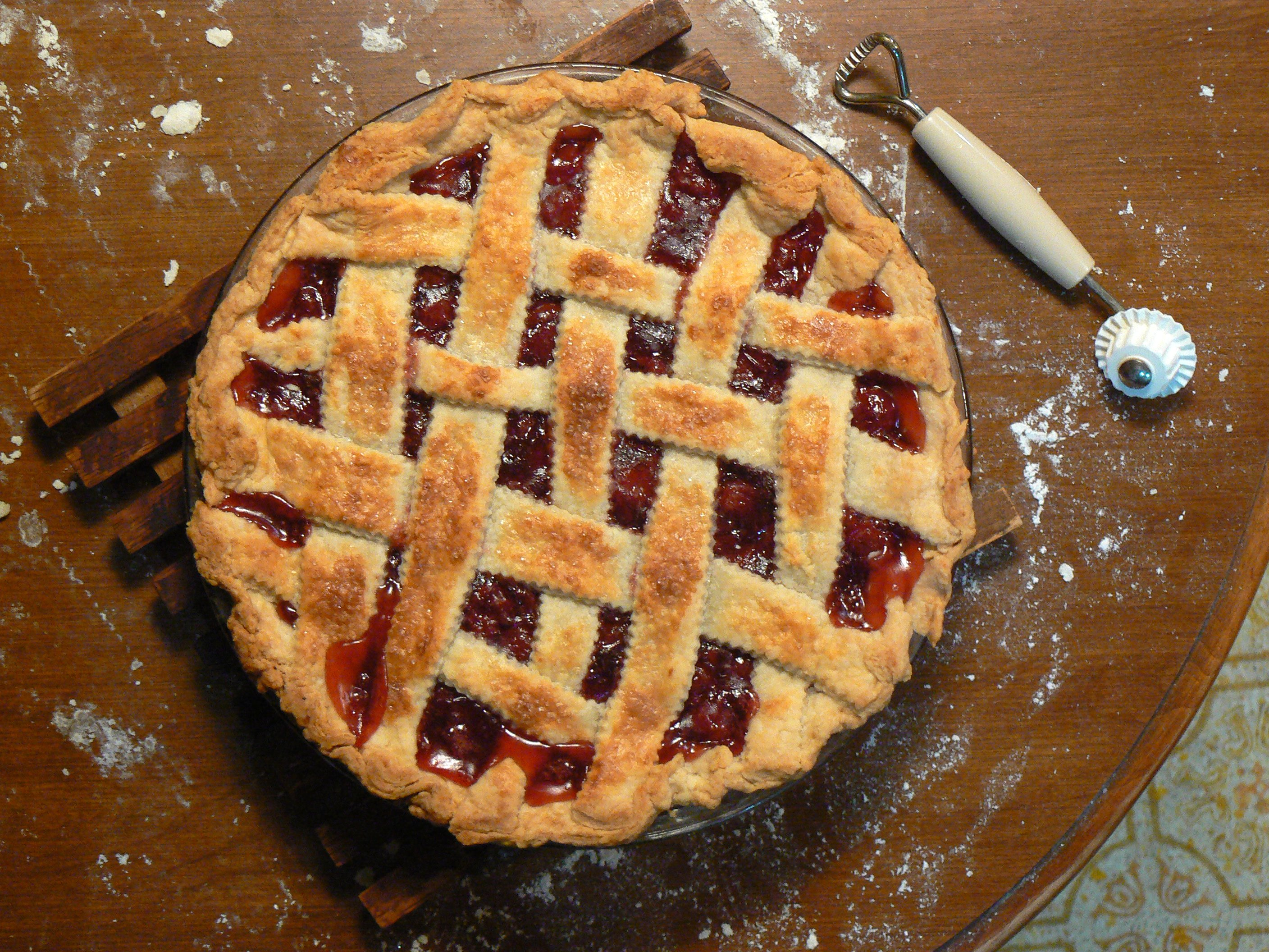 Oh, how handsome this one turned out. Tasty, too.